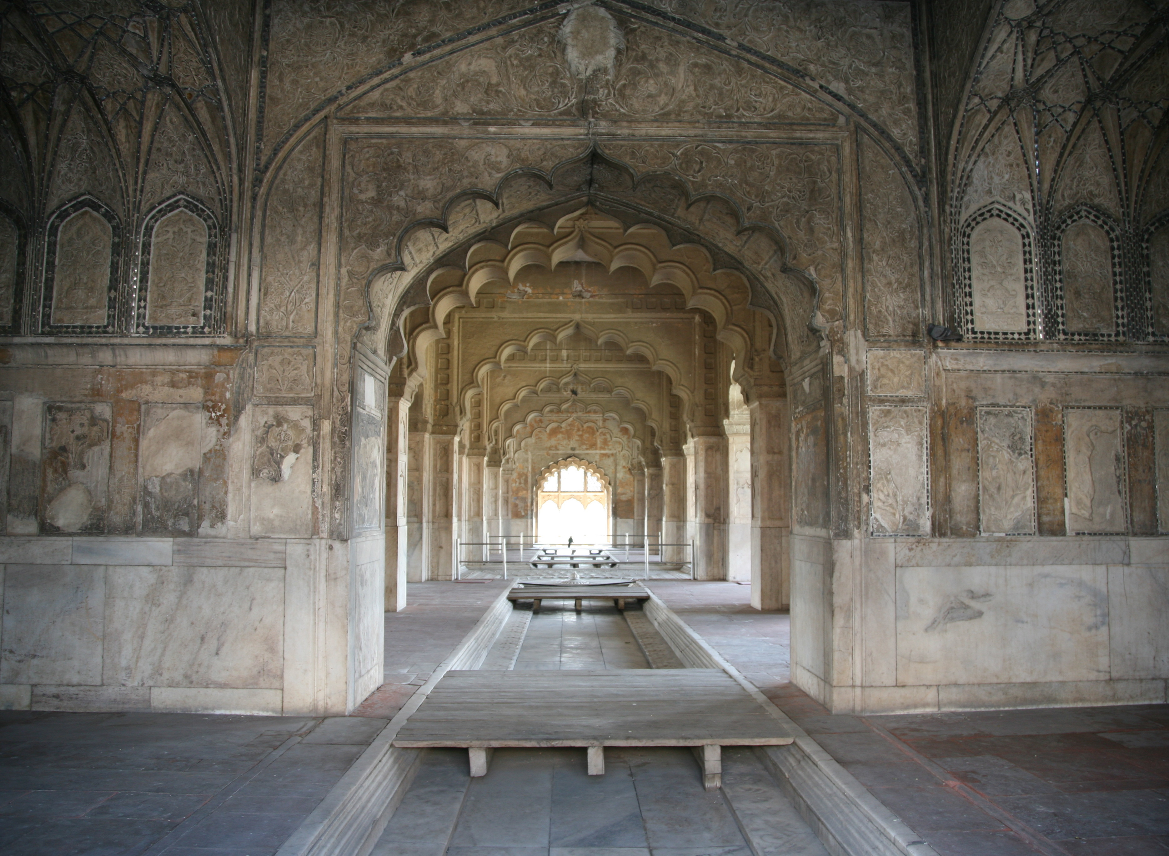 Rang Mahal at the Red Fort, Delhi